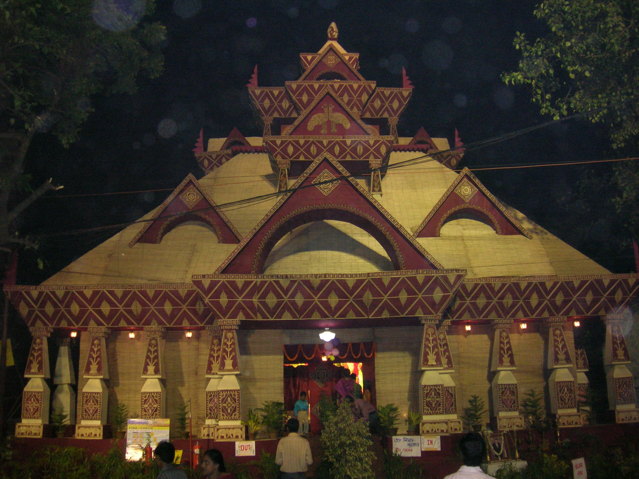 A Kali Puja Pandal at Behala, South Kolkata